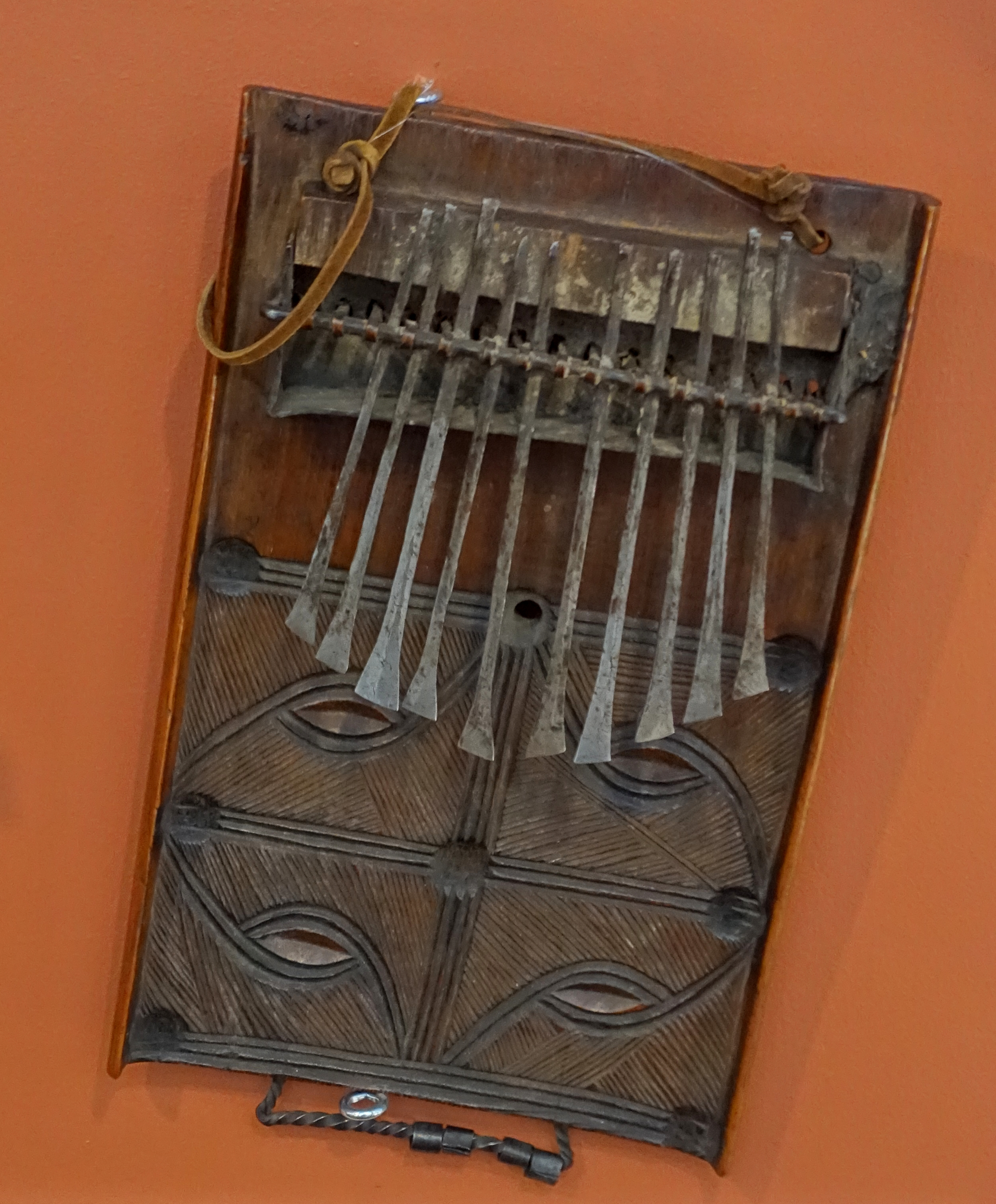 Exhibit in the Redpath Museum, McGill University - Montreal, Quebec, Canada.